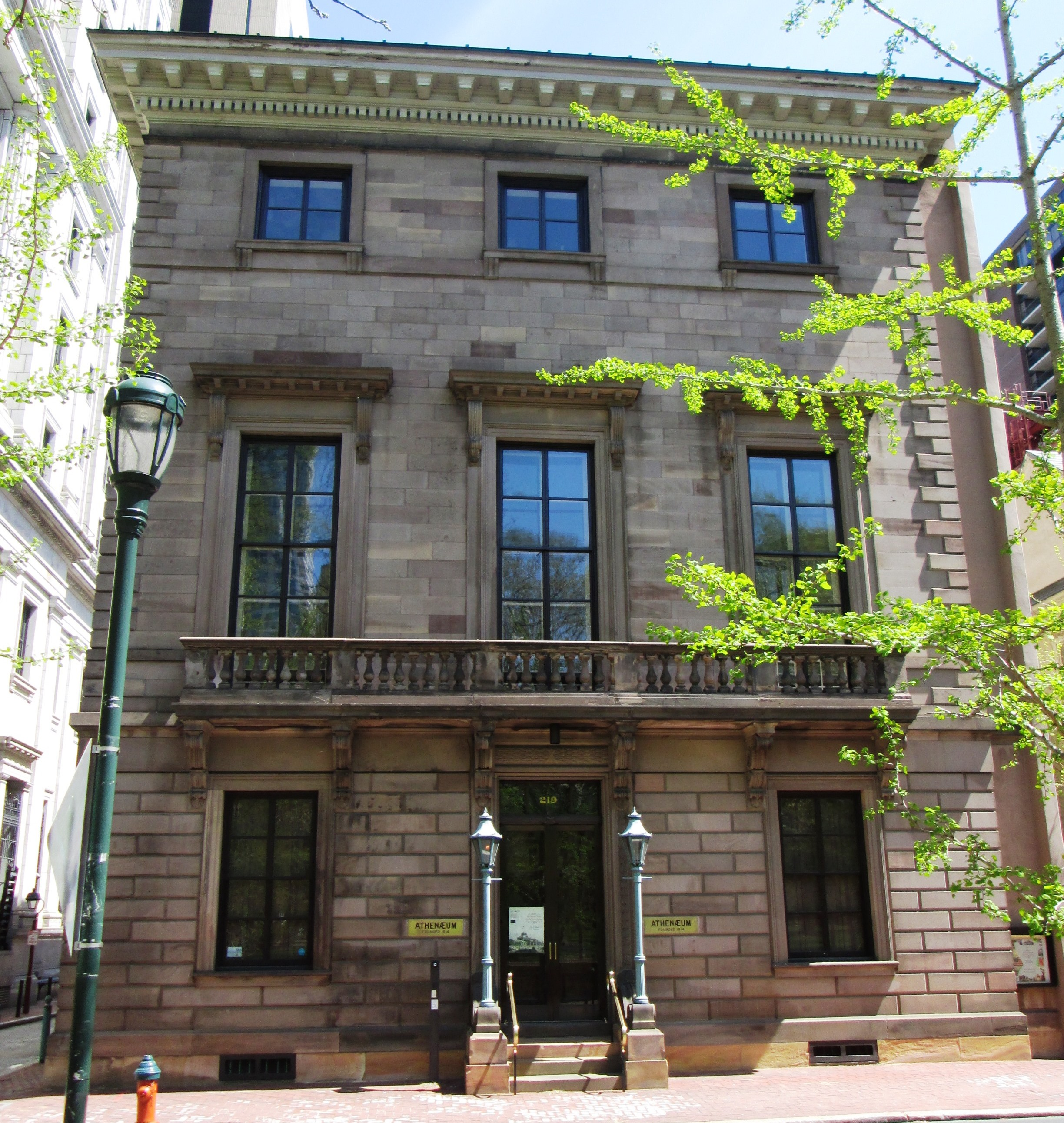 The Athenaeum of Philadelphia, located at 219 S. 6th Street between St. James Place and Locust Street in the Society Hill neighborhood of Philadelphia, Pennsylvania, is a special collections library and museum founded in 1814 to collect materials "connected with the history and antiquities of America, and the useful arts, and generally to disseminate useful knowledge" for public benefit. The building was designed in 1845 by architect John Notman in the Italianate style, and was one of the first buildings in the city to be built of brownstone, although it was originally planned to be faced in marble – brownstone was used because it was cheaper. Notman's design was influences by the work of the English architect Charles Barry. The building was declared a National Historic Landmark in 1976. Today, it is operated as a museum furnished with American fine and decorative arts from the first half of the nineteenth century, and is open to the public free of charge. (Sources: Philadelphia Architecture: A Guide to the City (2nd ed.) and "Mission and History" on the Athenaeum of Philadelphia website)